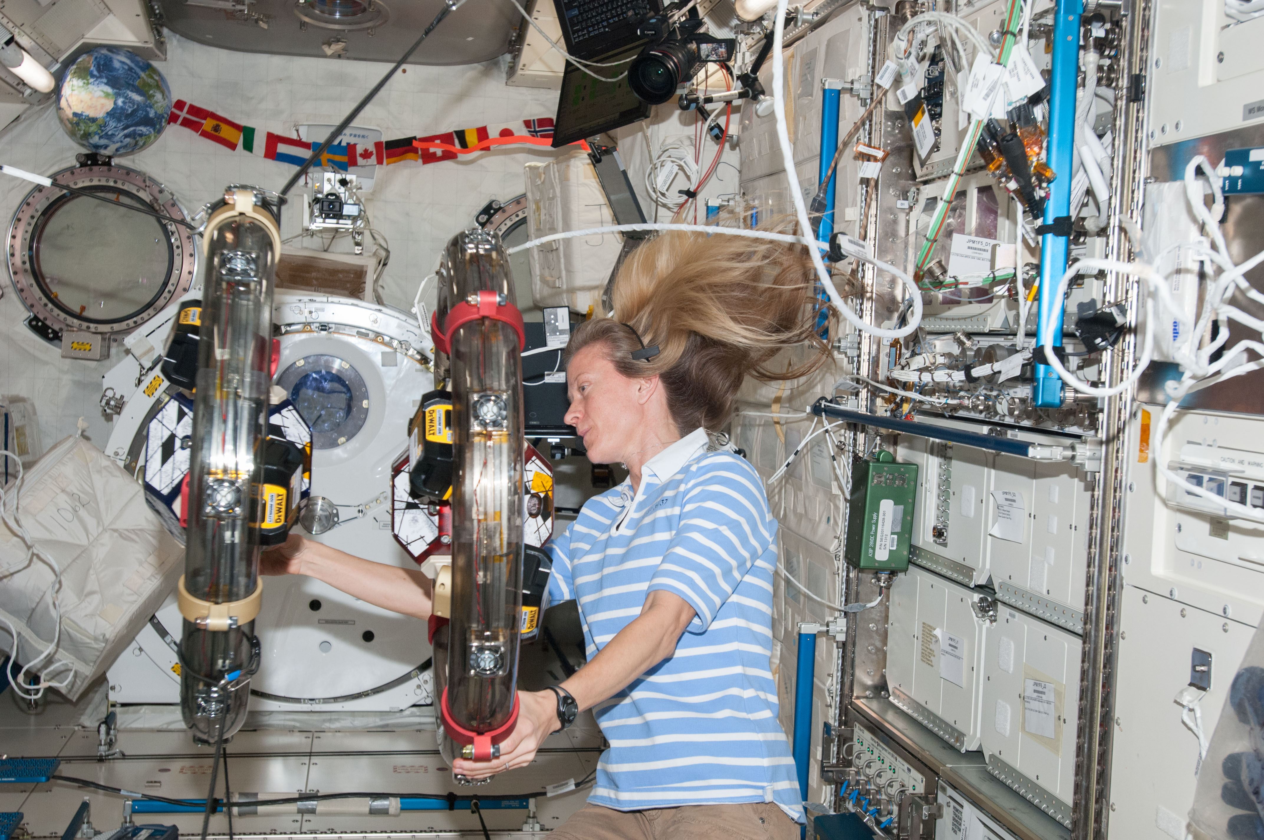 In the International Space Station's Kibo laboratory, NASA astronaut Karen Nyberg, Expedition 36 flight engineer, conducts a session with a pair of bowling-ball-sized free-flying satellites known as Synchronized Position Hold, Engage, Reorient, Experimental Satellites, or SPHERES. Surrounding the two SPHERES mini-satellites with ring-shaped hardware known as the Resonant Inductive Near-field Generation System, or RINGS, Nyberg performed a demonstration of how power can be transferred between two satellites without physical contact. Station crews beginning with Expedition 8 have operated these robots to test techniques that could lead to advancements in automated dockings, satellite servicing, spacecraft assembly and emergency repairs.